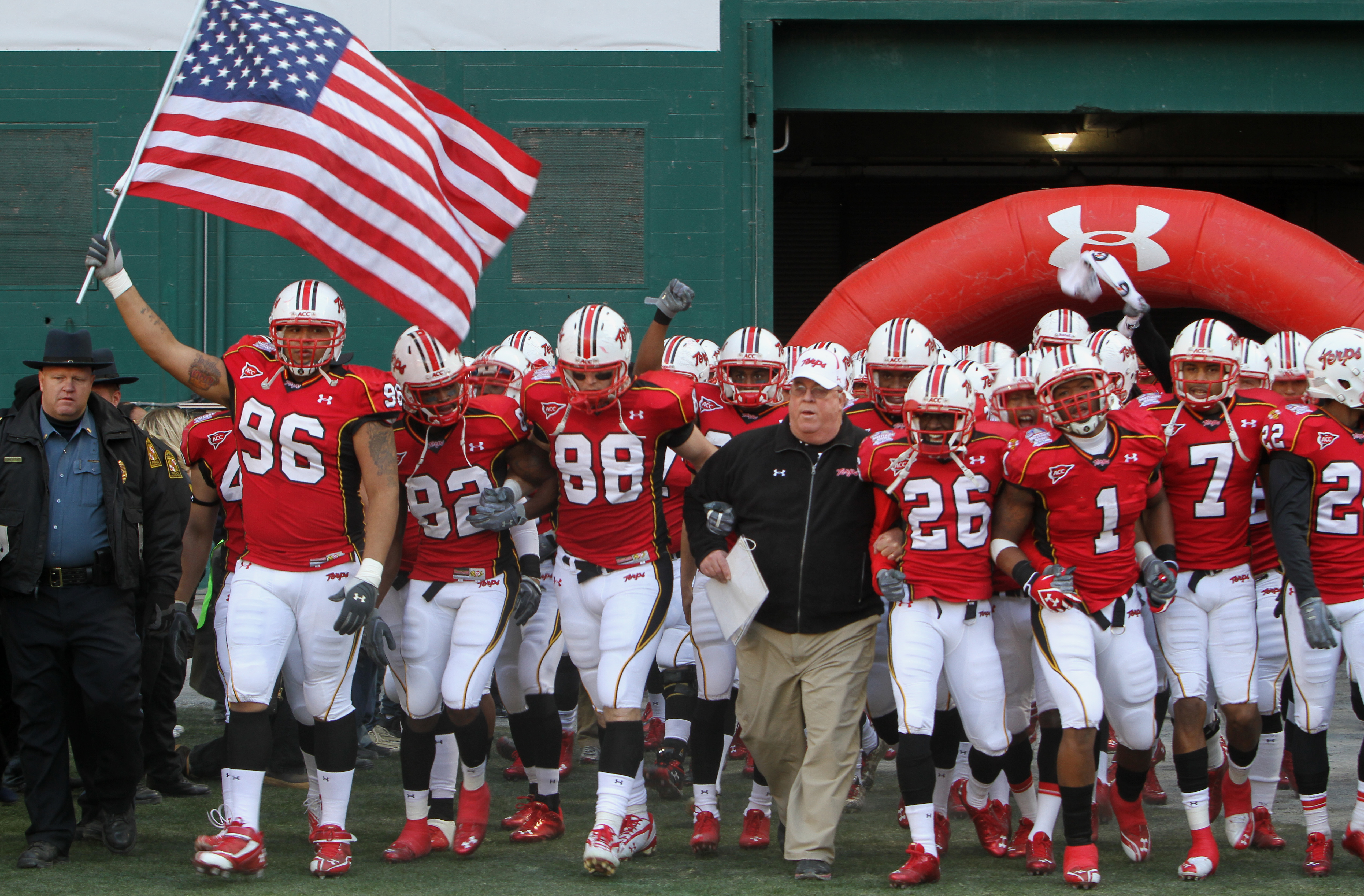 Coach Ralph Friedgen and the University of Maryland Terrapins entering the field for the 3rd annual Military Bowl game against East Carolina University